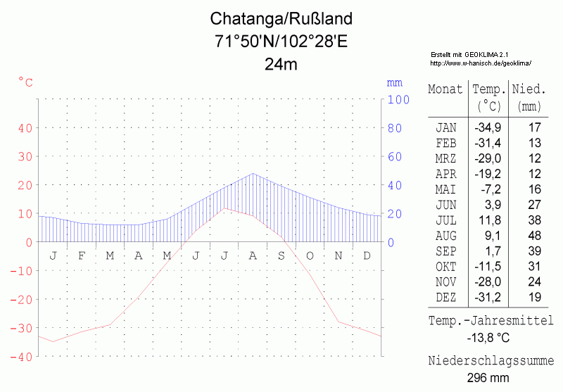 climate chart in the format by Walther and Lieth, metric, °Celsisus and millimeters, made with Geoklima 2.1